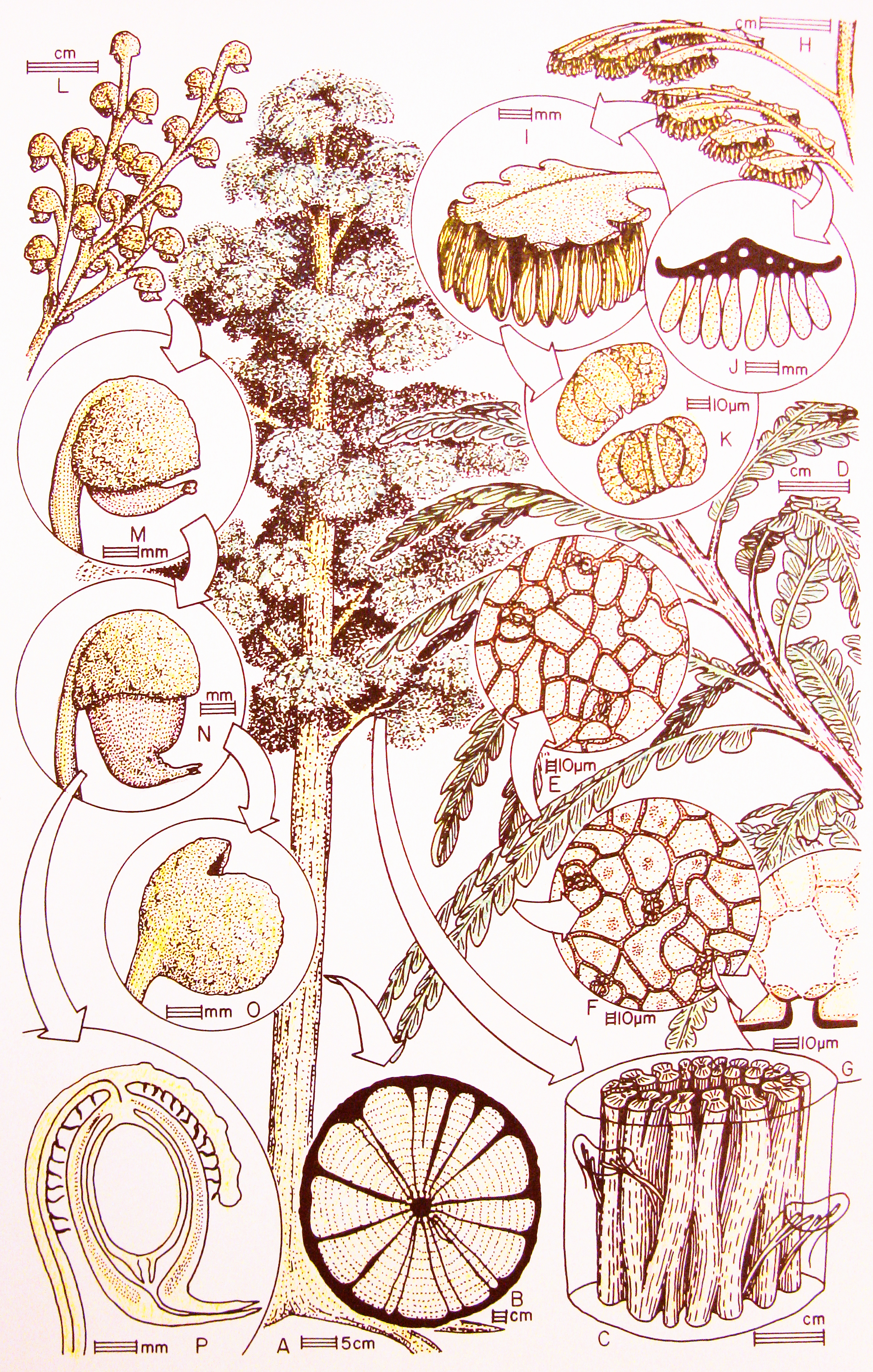 Reconstruction of en extinct seed fern from the Triassic of South Africa